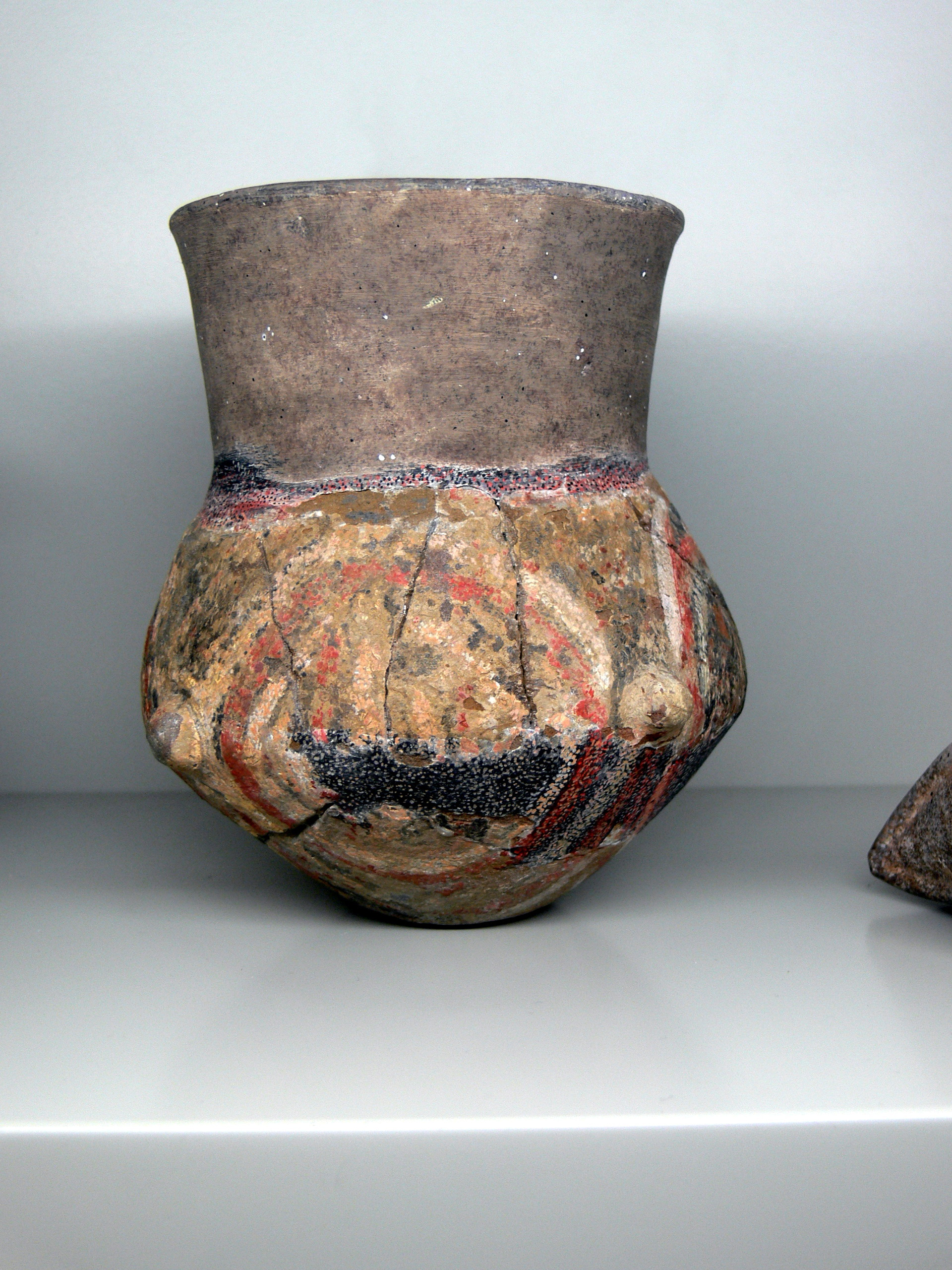 Castle museums in Linz ( Upper Austria ). Archeological collection: Pottery from Ölkam (St.Florian), Lengyel culture, 4800 BC.